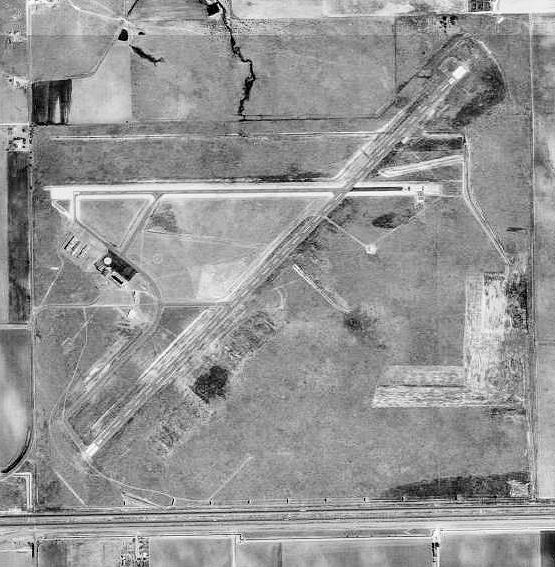 USGS digital orthophoto of Tucumcari Municipal Airport in Tucumcari, New Mexico, United States